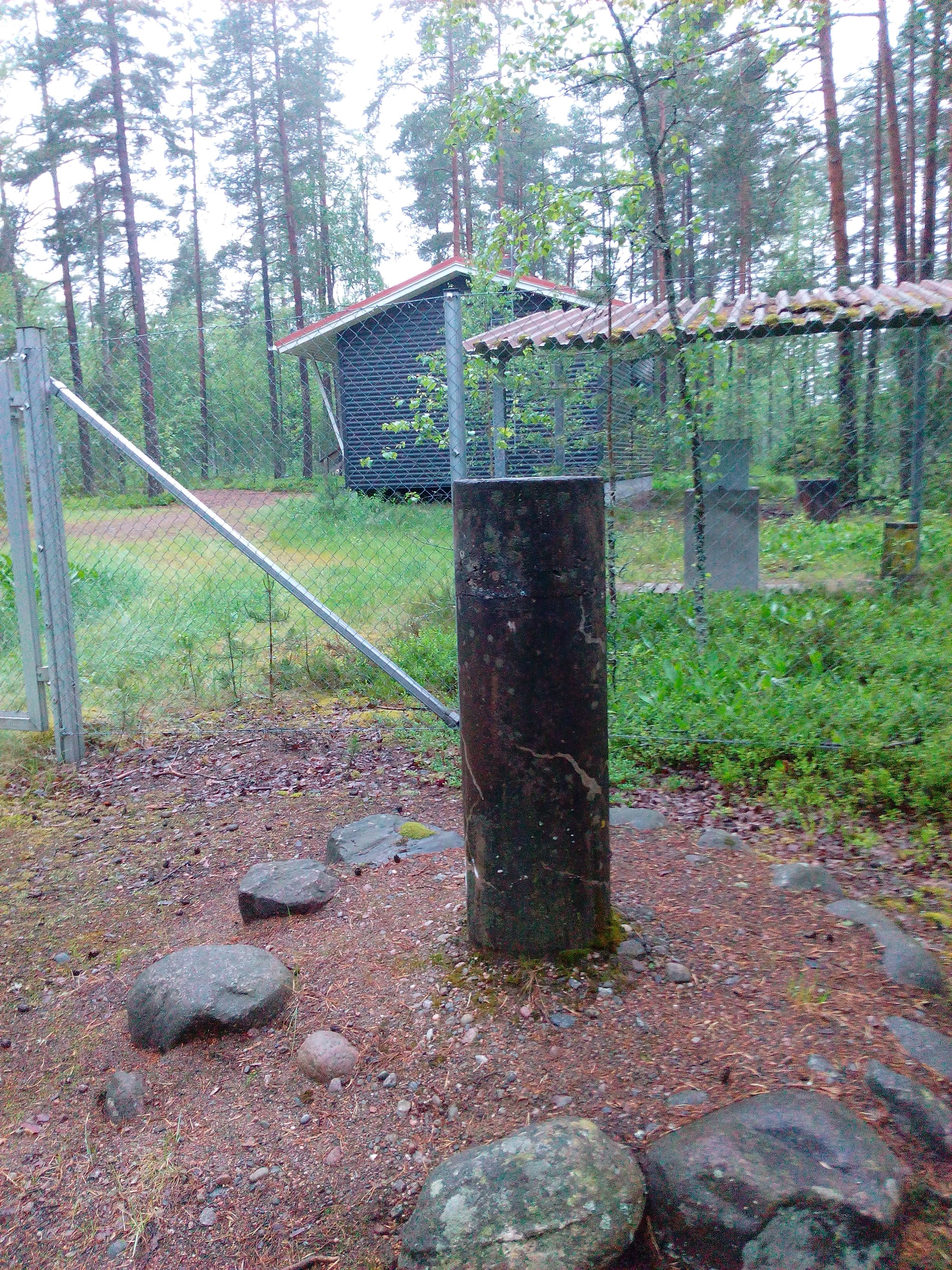 Photograph of one the pillars of standard baseline in Nummelanharju (municipality of Vihti).On background there is a warehouse that stores items needed for measurements.